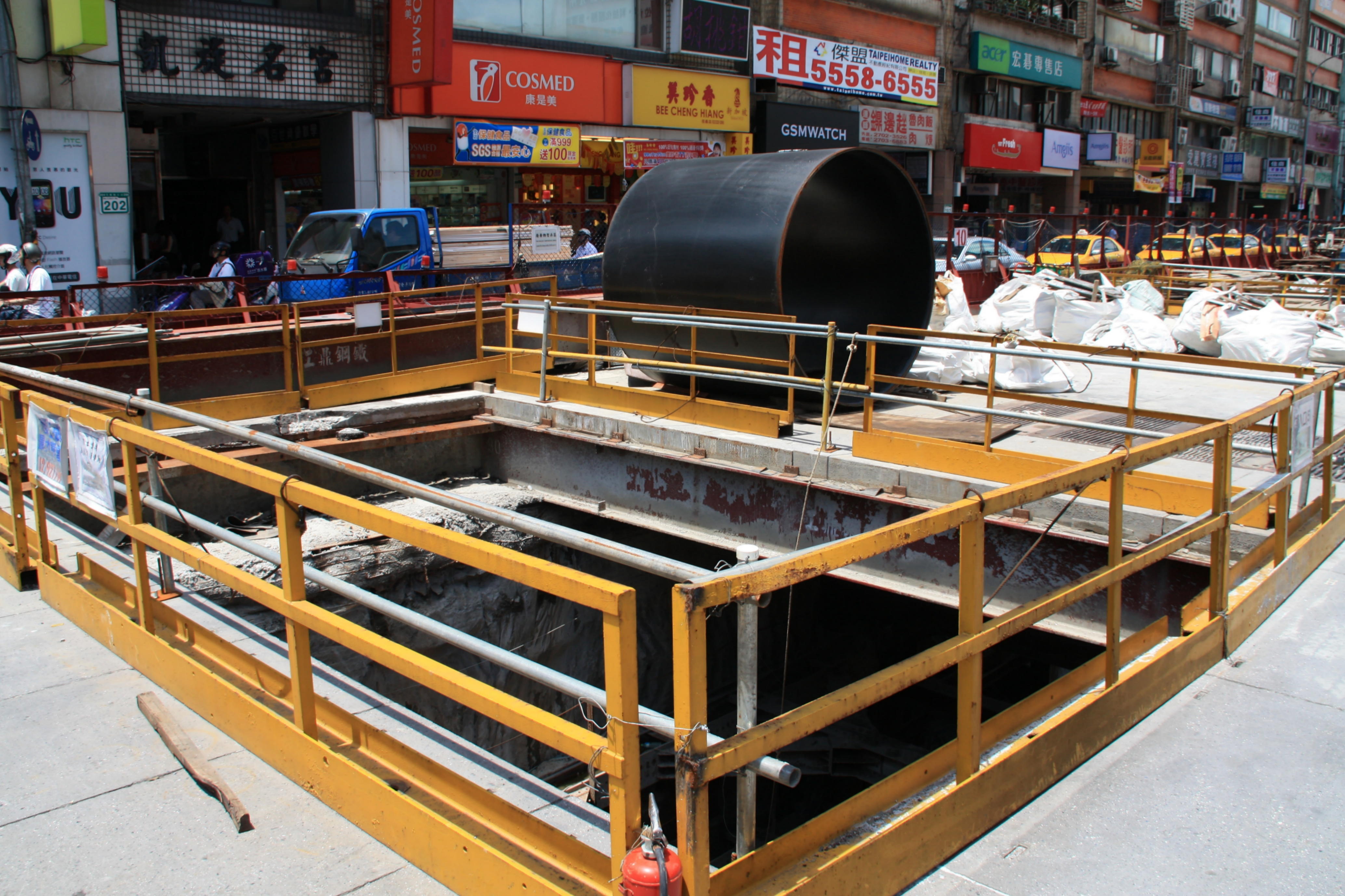 TáiběiDa-an DistrictFùXìng South Rd-XìnYì Rd intersectionConstruction work for Xinyi Line of the Táiběi MetroMRT Daan Station built with Cut-and-cover method (Bottom-up)